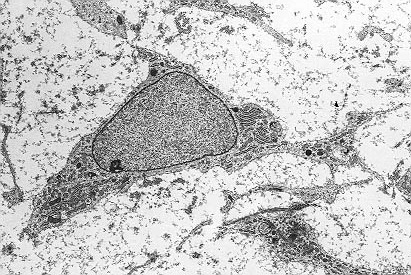 Mesenchymal Stem Cell - rotate